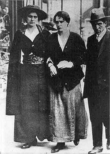 May 25, 1915 a woman rescued from the sinking of the Lusitania